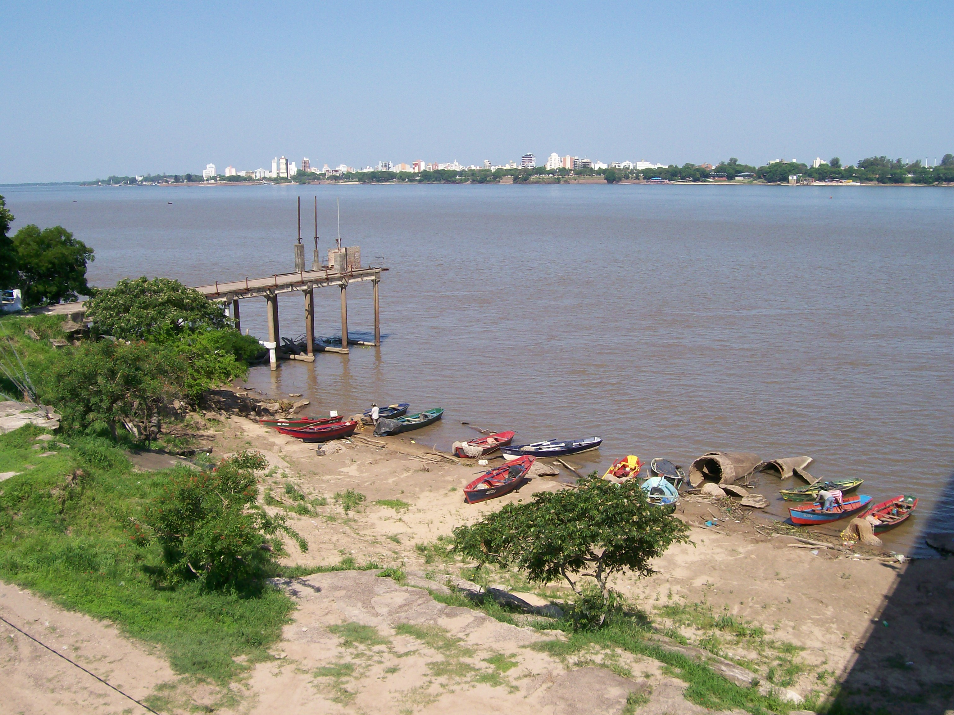 Boats by Paraná River in Barrio San Pedro Pescador (Saint Peter Fisherman), 1º de Mayo department, Chaco Province, Argentina. You can see local fishermen preparing their dairy work and Corrientes city over the opposite side of the river. Right shadow corresponds to General Manuel Belgrano bridge.